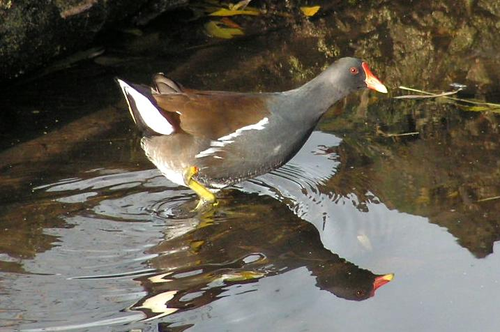 Common moorhen (Gallinula chloropus). Taken by Jens Buurgaard Nielsen near The Hague, Netherlands in November 2005